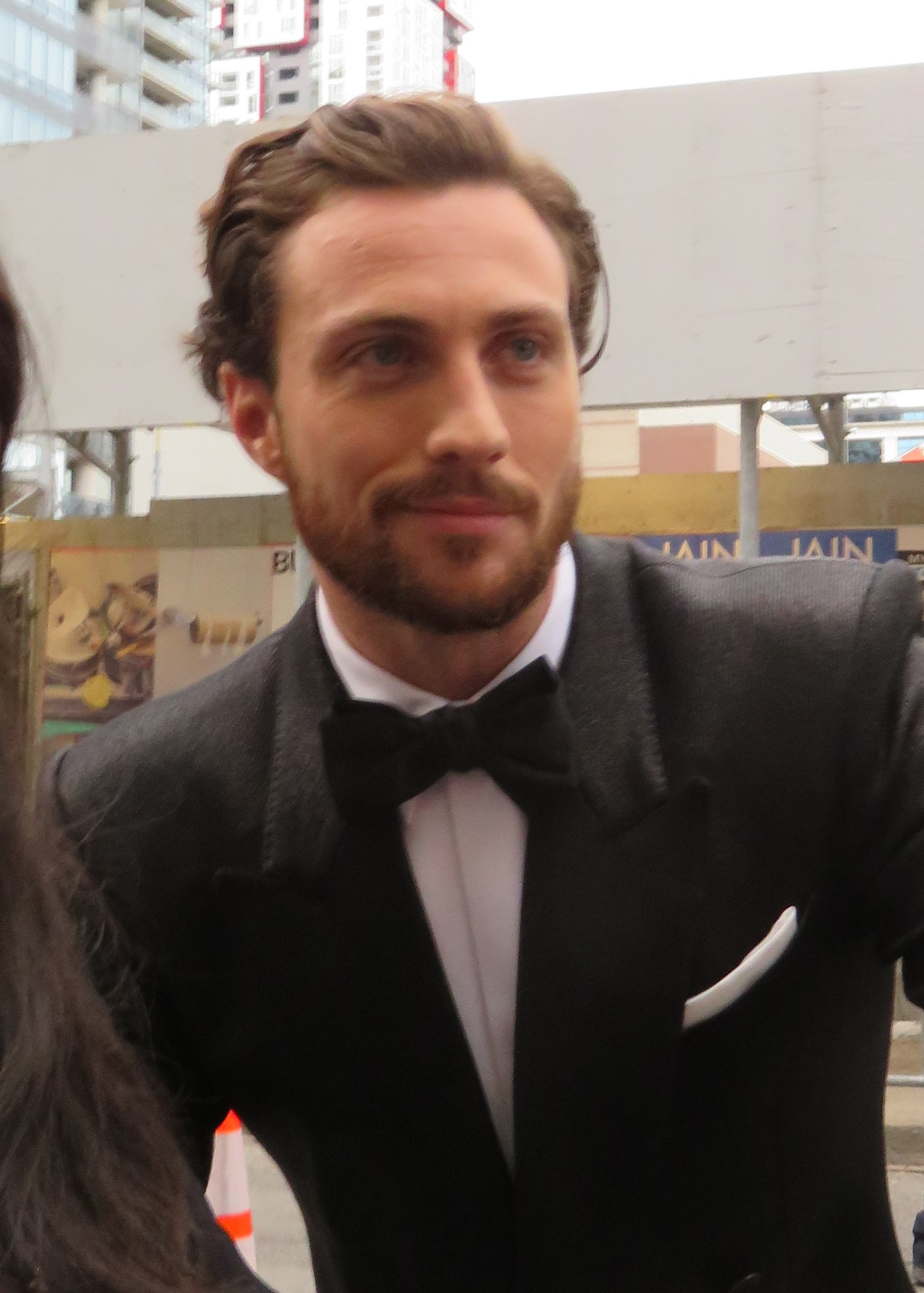 Aaron Taylor-Johnson at the premiere of Outlaw King, 2018 Toronto Film Festival.